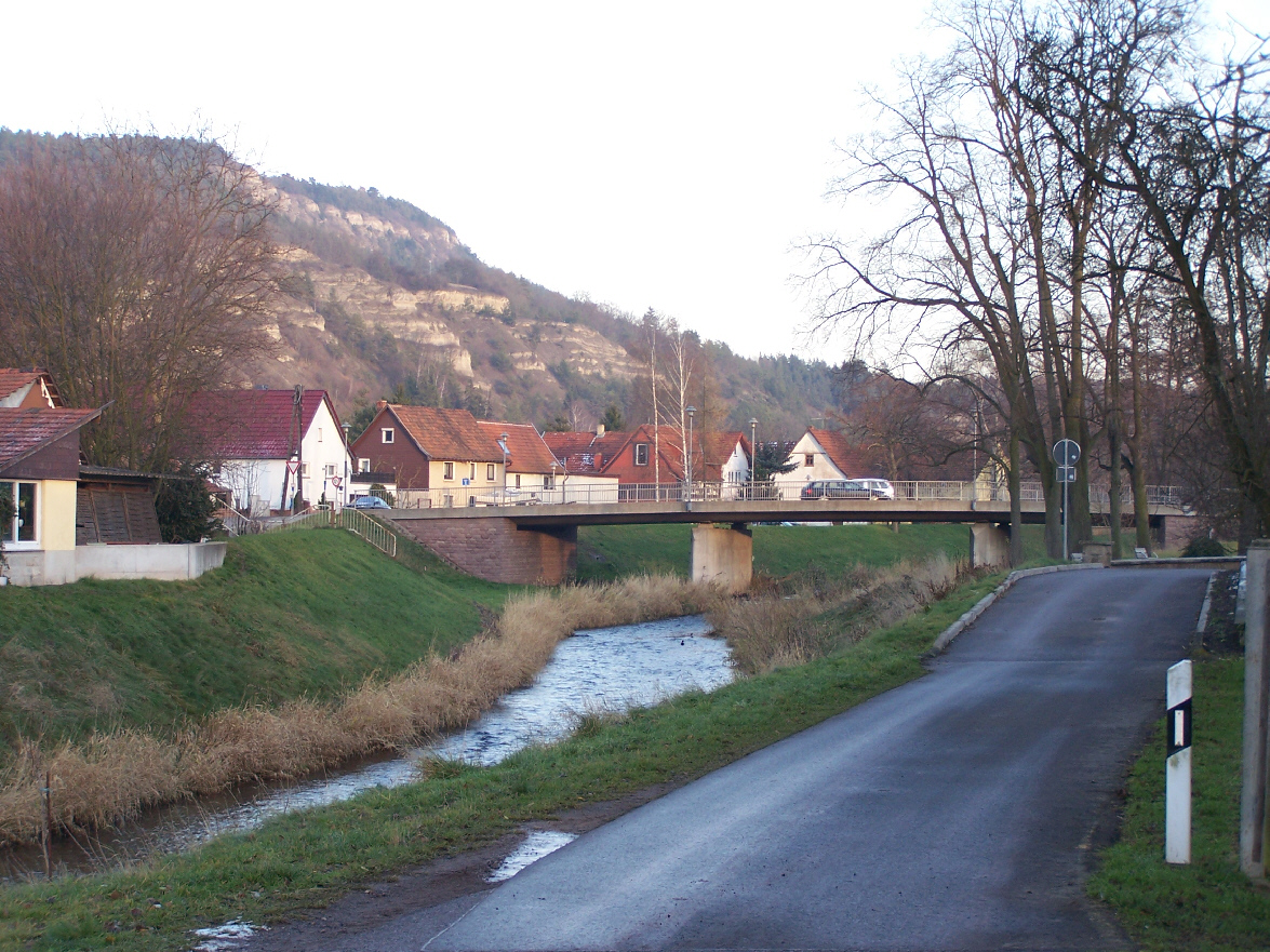 The bridge in Eichrodt over the river Hoersel.